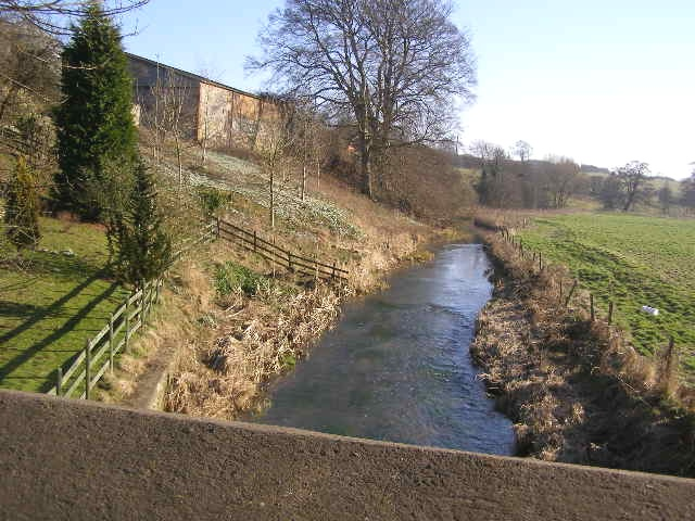 River Witham, near Park Farm This is the view of the River Witham, looking south, close to Park Farm on Whalebone Lane. a large area of the bank to the left, beyond the fence, is covered with naturalised snowdrops. This roadbridge was built is 1922.